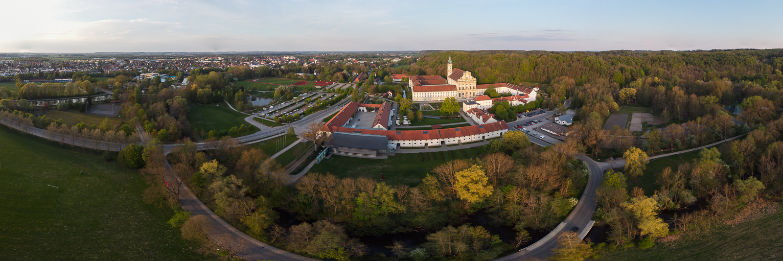 Kloster Fürstenfeld at sunset (aerial panoramic photo composed of 21 single images)